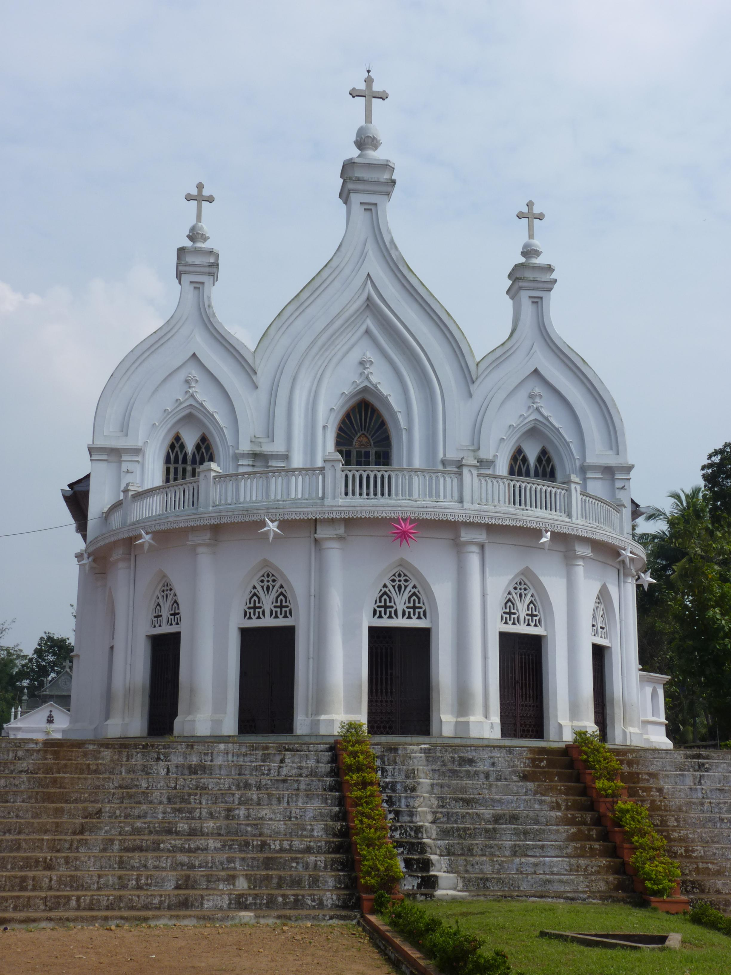 St Mary's Metropolitan Cathedral of the Syro-Malabar Catholic Archdiocese of Changanassery by Gashwin Gomes